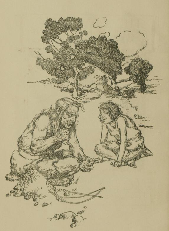 An early sketch from a book by Margaret A. McIntyre that was published prior to 1923, imagining an adult and a juvenile from prehistoric times making a stone tool